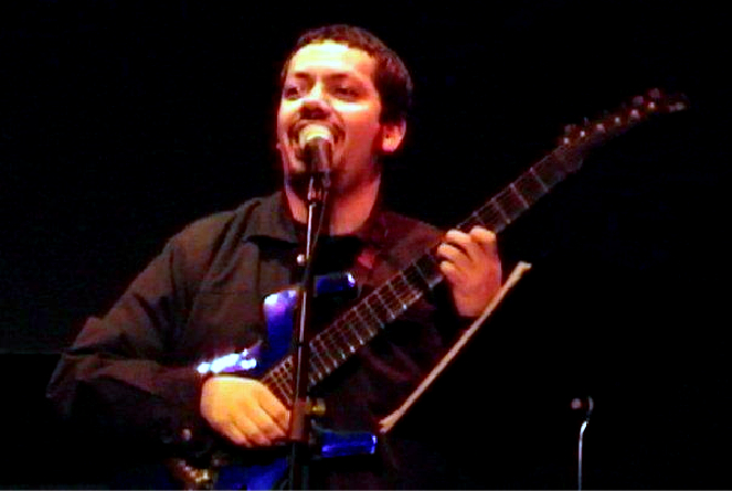 Alexander Cuesta-Moreno